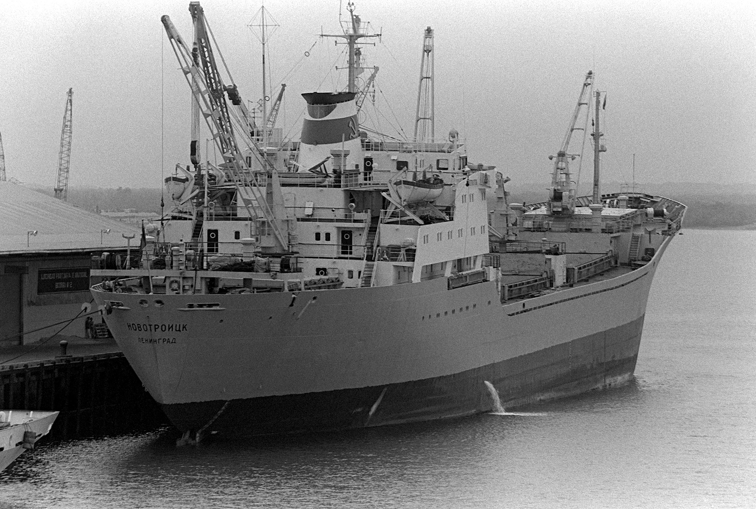 A starboard quarter view of a docked Soviet ship Novotroizk.